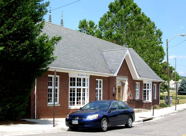 Gainsboro Branch of the Roanoke City Public Library listed on the National Register of Historic Places in Gainsboro, Roanoke, Virginia, USA